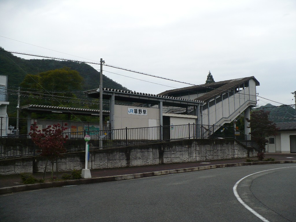 Front view of Kusano station in JR West Fukuchiyama line, Sasayama city Hyogo prefecture Japan.